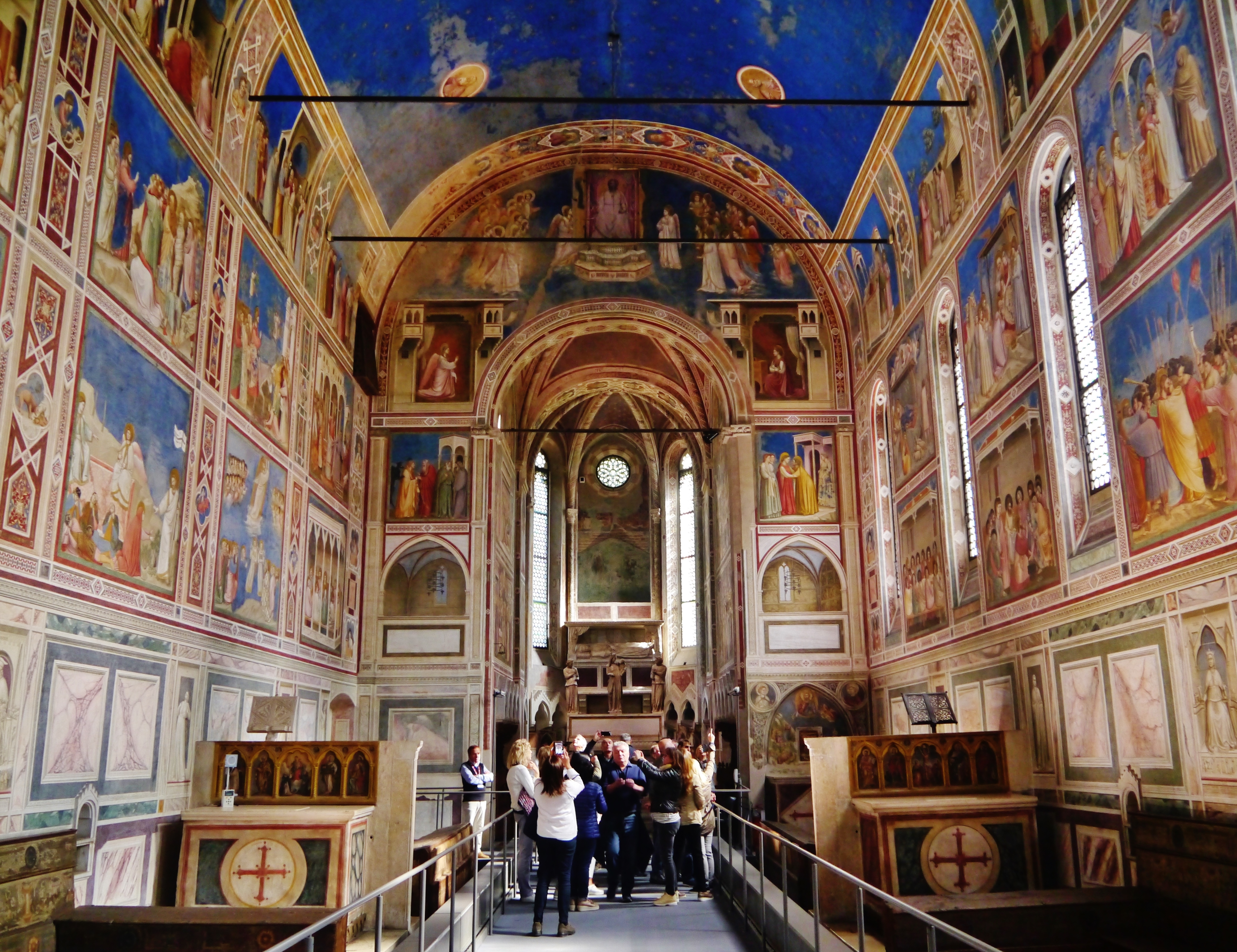 Nave of the Scrovegni Chapel, Padua, Province of Padua, Region of Veneto, Italy